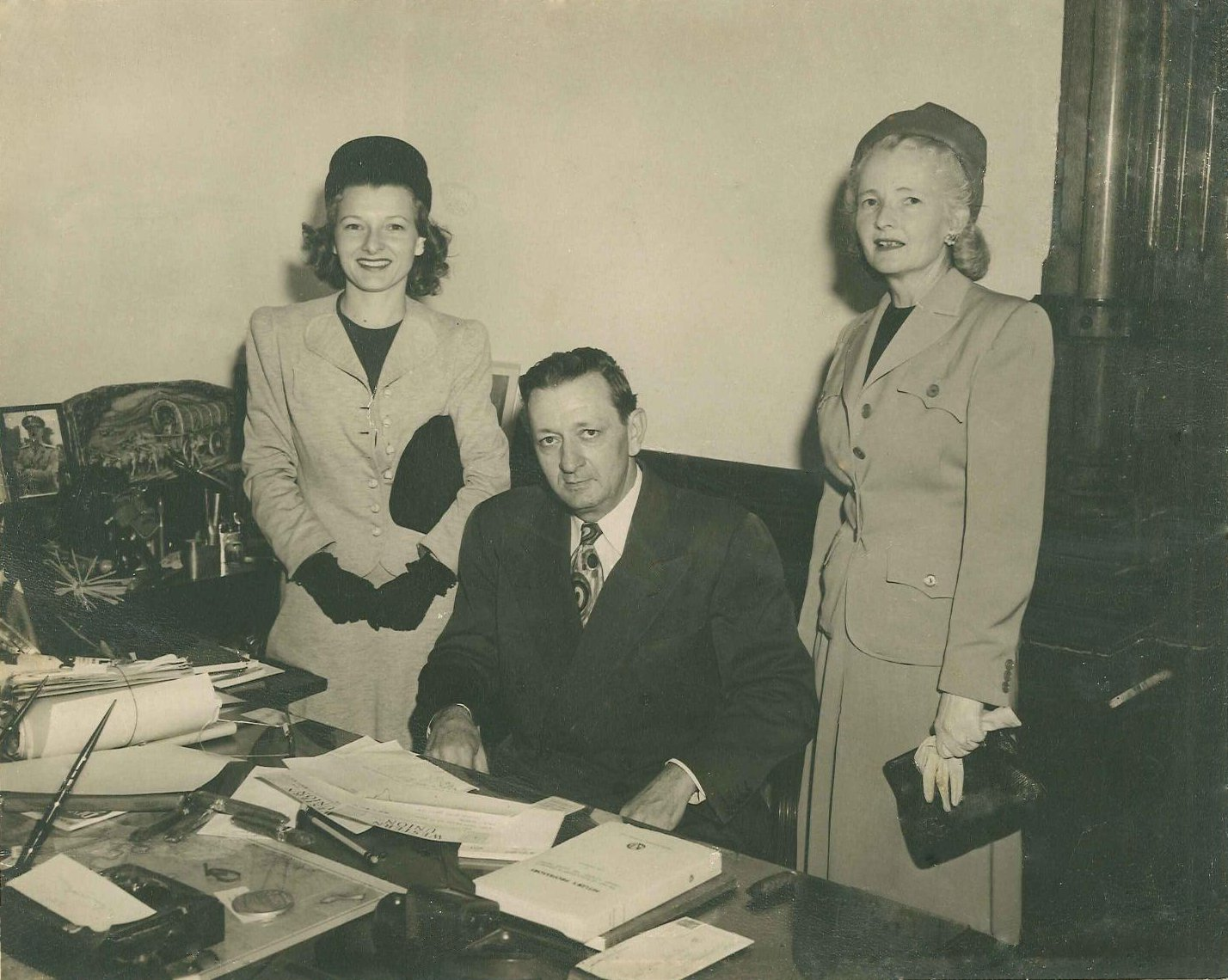 Senator Graves and Family Texas Capitol Bldg